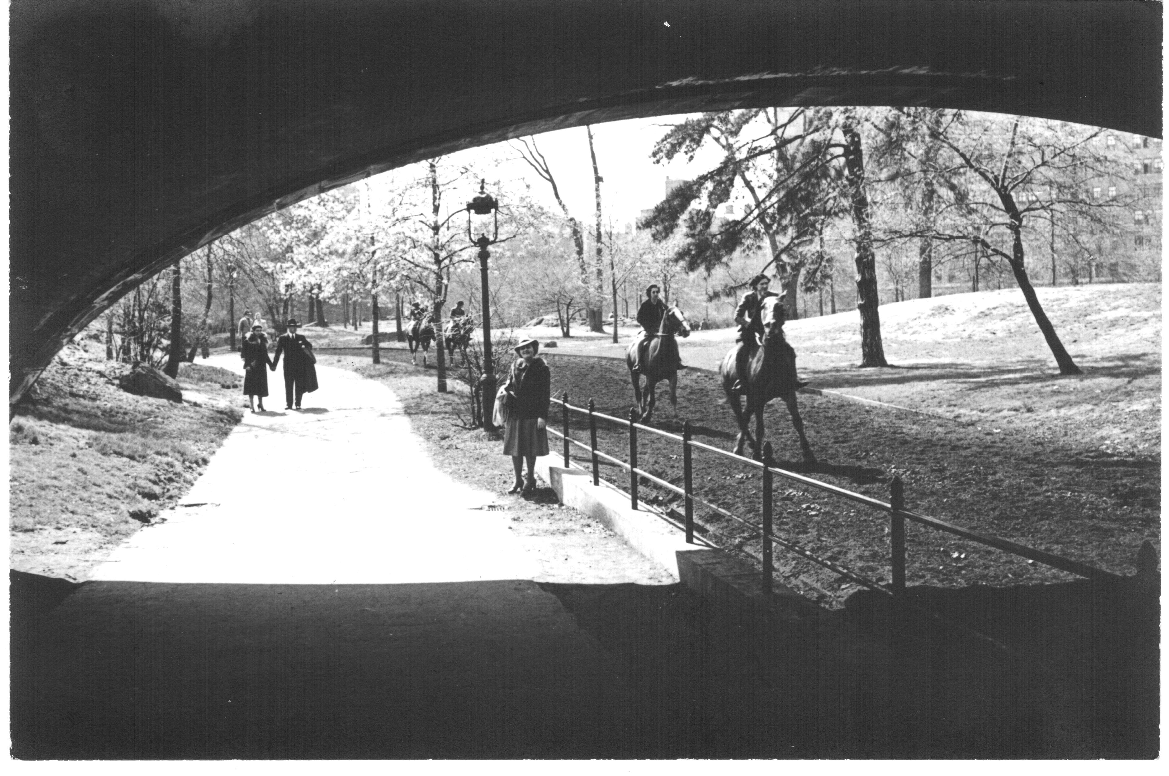 Unknown photographer (Scanned by Derzsi Elekes Andor). Size: 10 cm x 16 cm. On the back side, hand written: Central Park May 1940 (2). Dara: 12230, Courtesy of Derzsi Elekes Andor. Horseback riding has been a tradition in Central Park for 150 years, dating back to when the park was originally designed. There is some evidence that Central Park was originally meant to be seen from horseback. Trails such as the bridle path adjacent to the Reservoir are made of hard, packed dirt and are as perfect for horseback riding today as they were when the park opened. From 1927 to 2007, the Claremont Riding Academy, built in 1892, operated in Central Park, giving reasonably-priced horseback rides to anyone who wanted them. However, over time, the bridle path became frequently filled with other park users and it became too difficult to safely navigate on horse. In 2007, the stable was forced to close, and with it the only vendor of horse transportation in the park. From 2007 to 2011, horseback riding was available from Riverdale Equestrian Center on a very limited basis. Private trail rides could only occur in the park by appointment. Sources: ©© Derzsi Elekes Andor, Budapest, 2014, You are authorised to use these photos and vids under Creative Commons – even for commercial, for profit purposes. Photos must be attributed to Derzsi Elekes Andor. All of the photos and vids in the Metapolisz DVD line are under Creative Commons and can be used even for commercial – for profit – purposes. Recommended Citation Derzsi Elekes Andor: Metapolisz DVD line